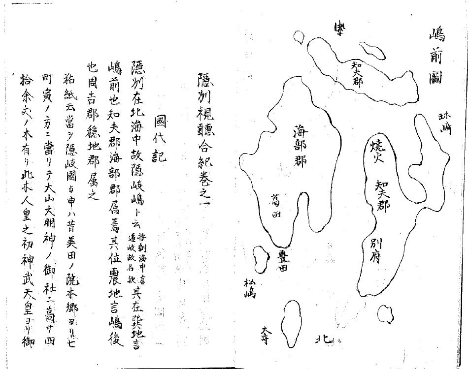 Japan's map